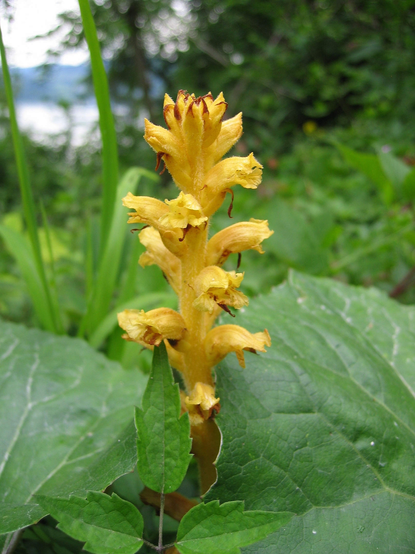 Orobanche_flava, East-Traunsee , Upper Austria, Austria